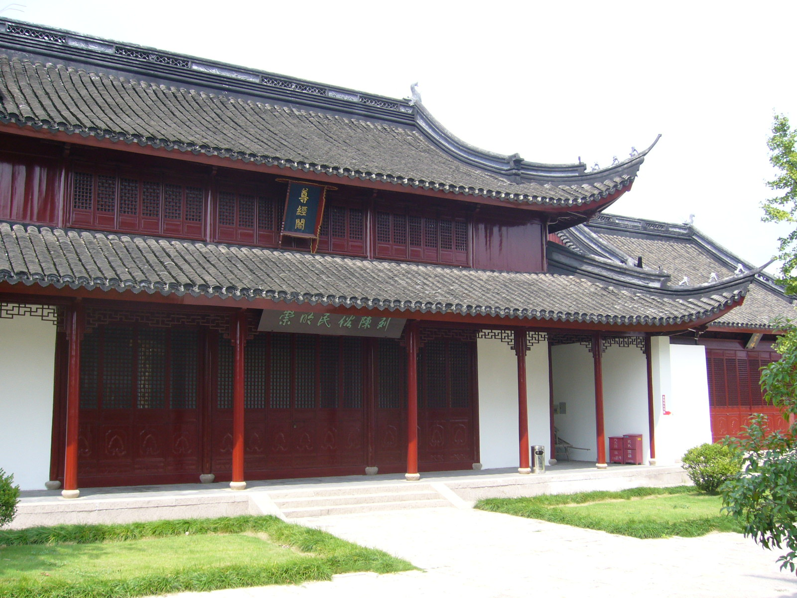 Zunjing Pavilion of the Chongming Confucian Temple